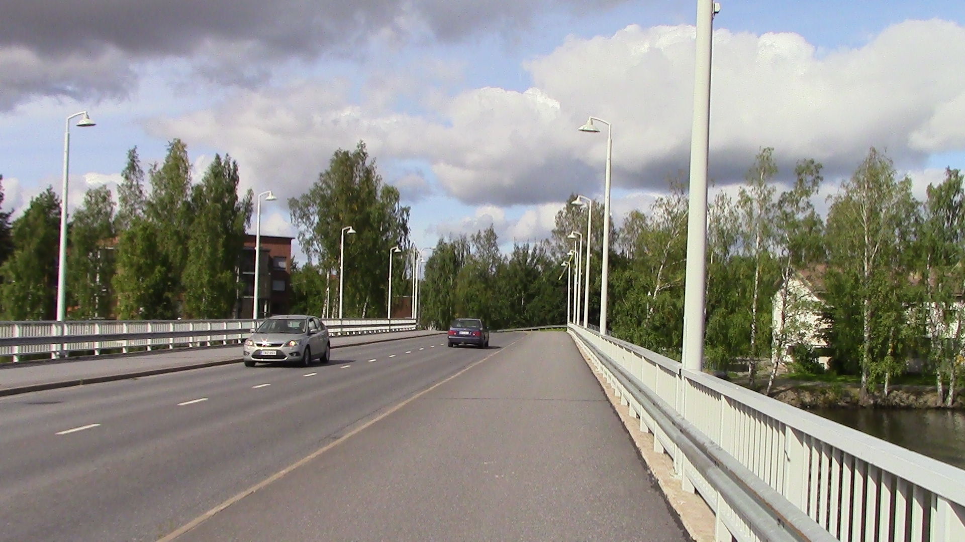 Finnish regional road 252 at bridge crossing Rautavesi lake in Sastamala. The road runs from Punkalaidun to Vammala.